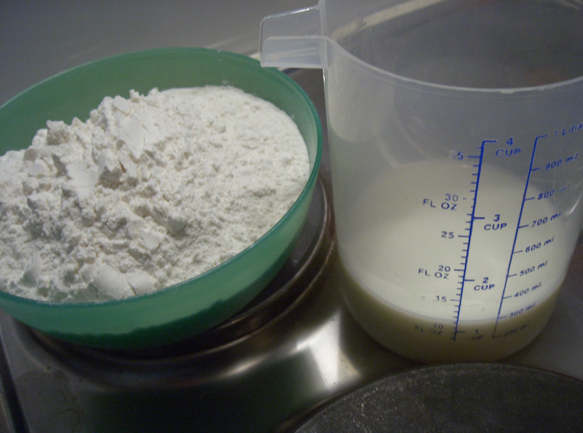 (Plain) Flour and (lite) milk.